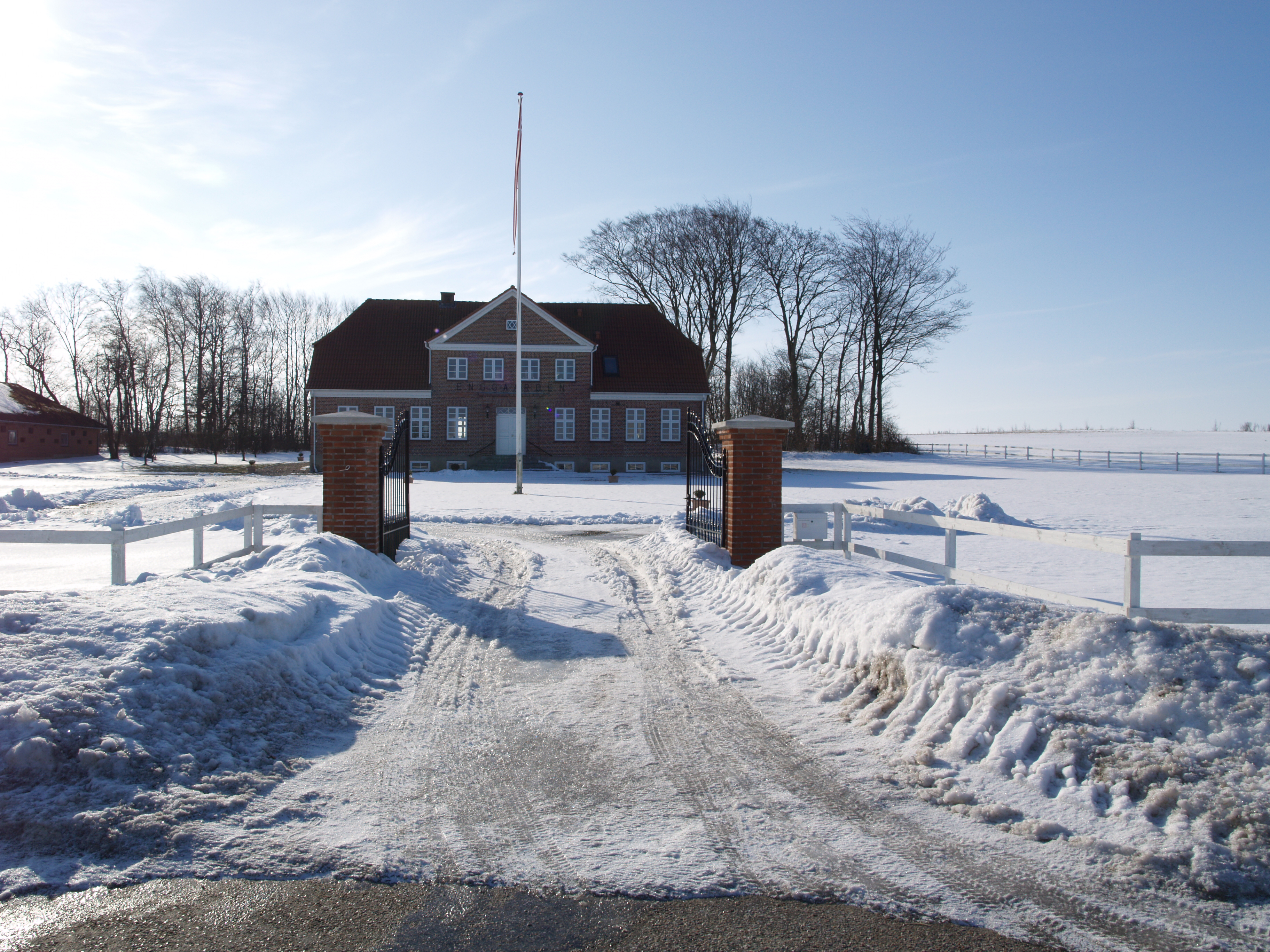 The mansion, Enggaarden (Enggården), Stenderup, Toftlund